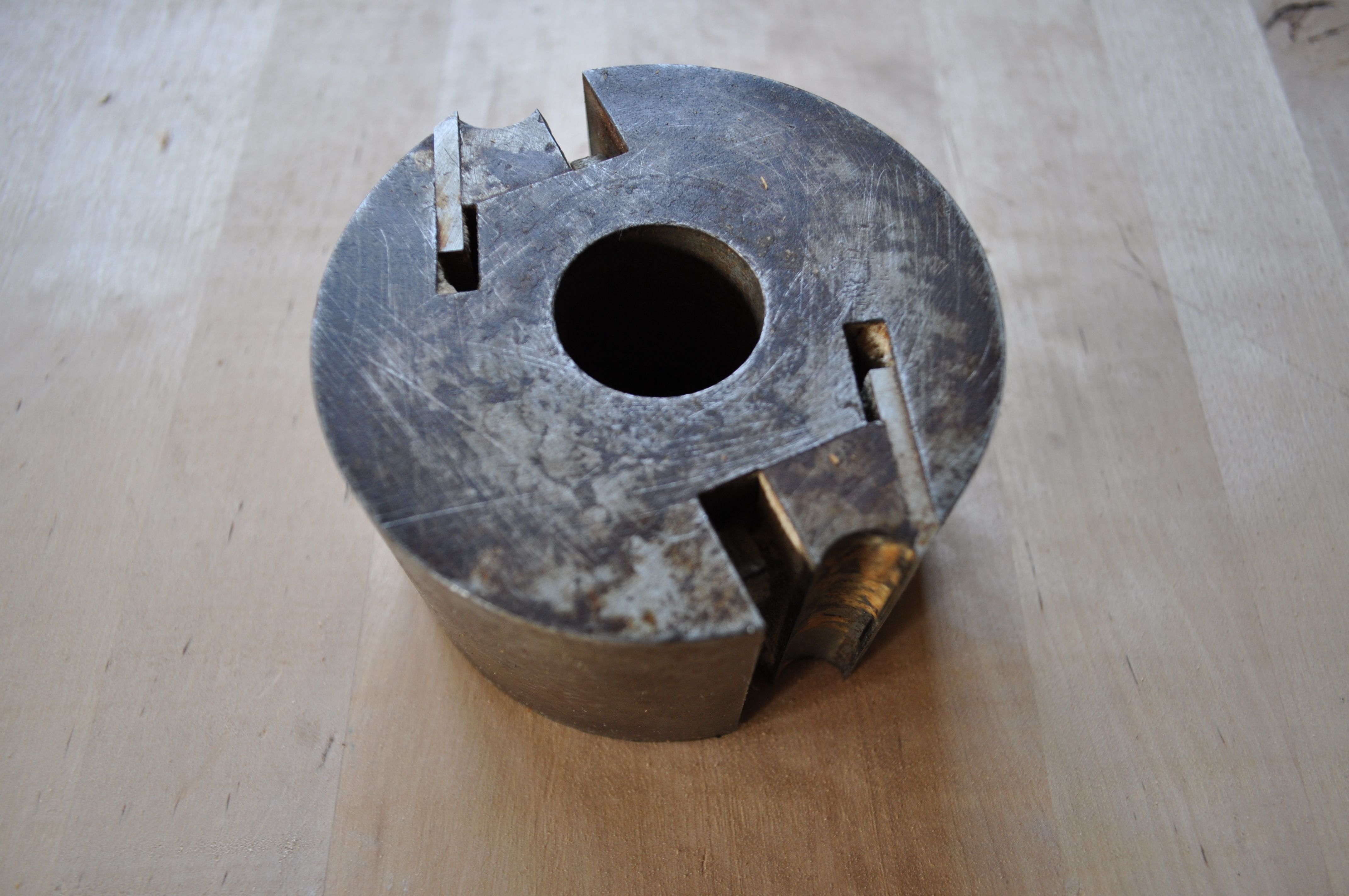 Cutter head with too knives for Spindle moulder.